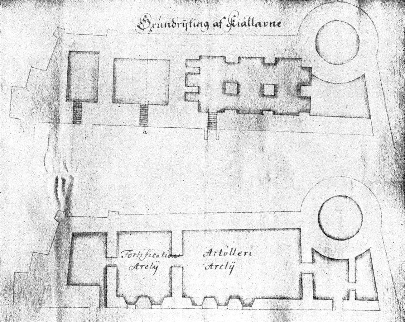 Tartu Castle cellars. XVII century plan, made by Swedish military.